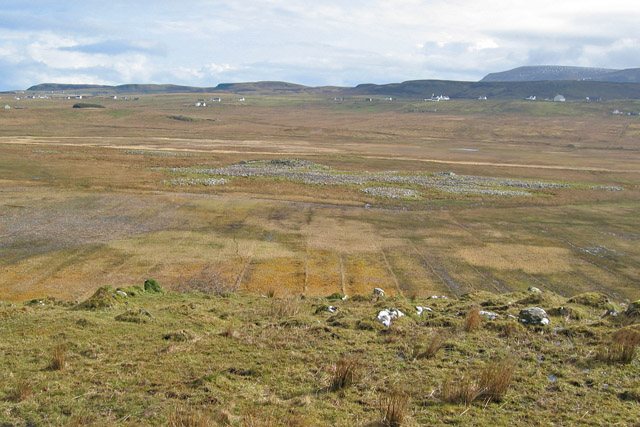 Eilean Chaluim Chille, near Balgown, Skye.